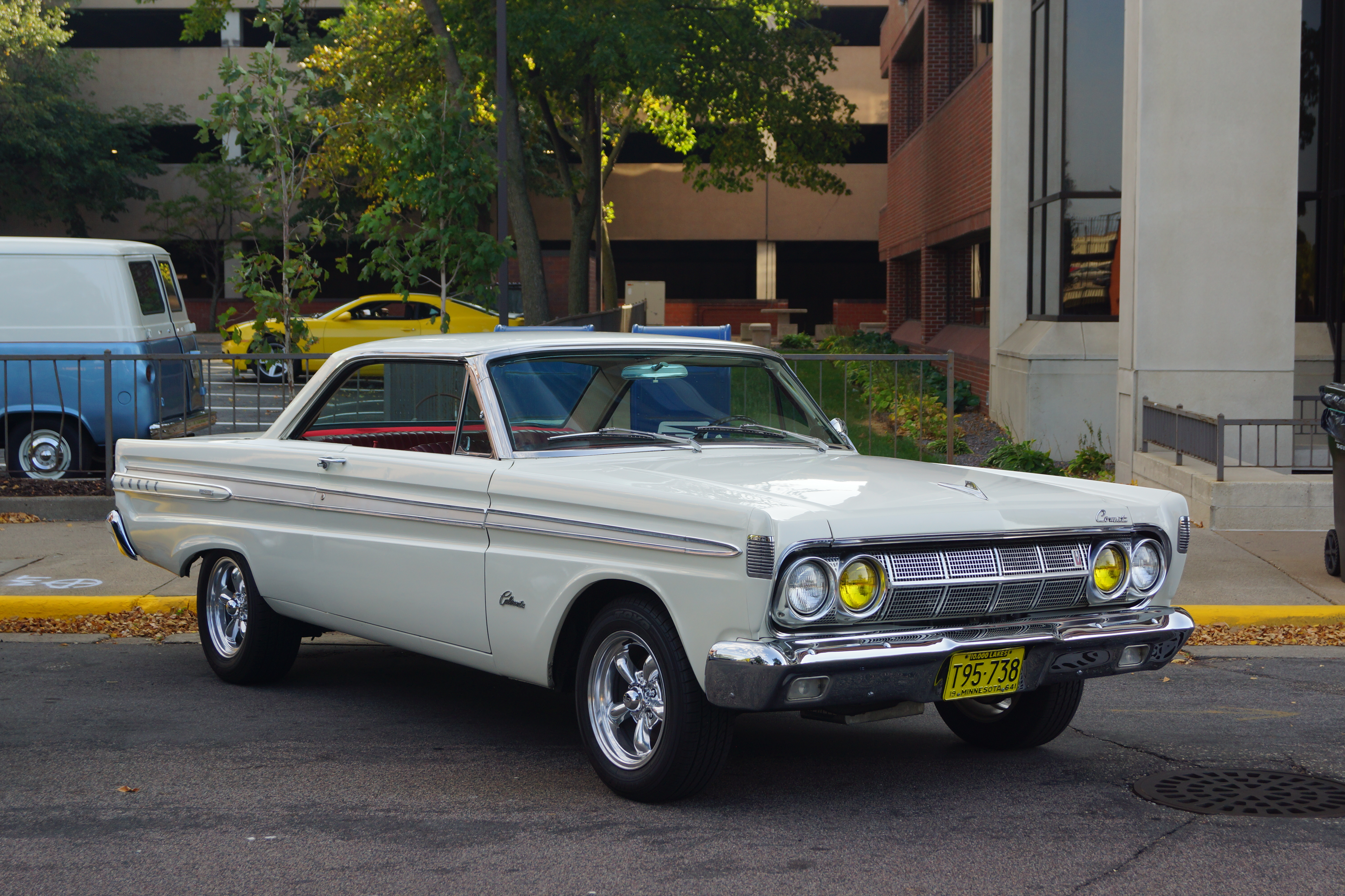 Anoka Classic Car Show Sponsored by Anoka -Champlin Fire Department Anoka, Minnesota Season Finale September 2017 ******* Click here for 2017 Car Event pictures.. Click here for more car pictures at my Flickr site. Or here for my Car Crazy Tumblr site. Or on Twitter @DVS1mn.